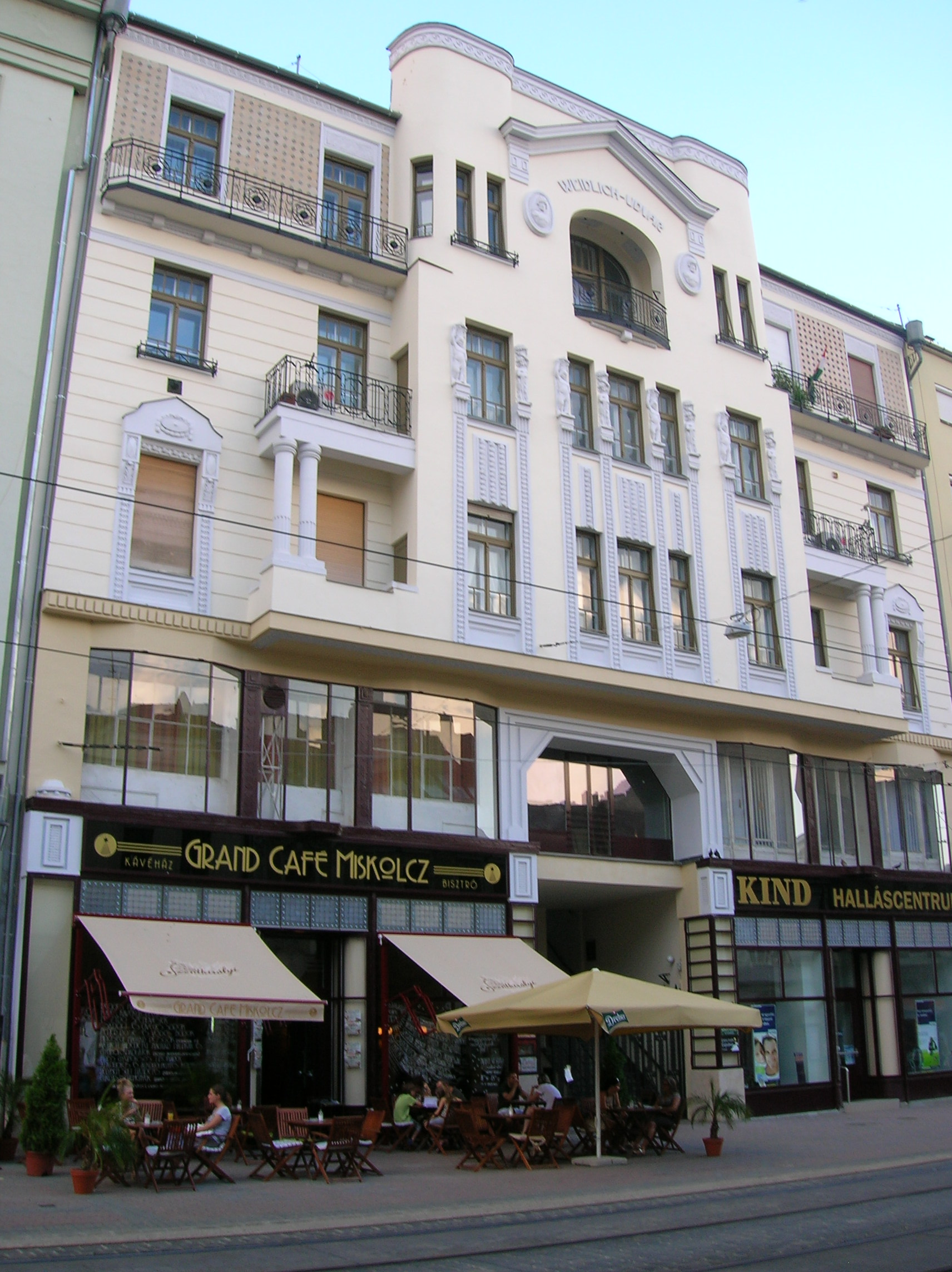 19 Széchenyi Street, Miskolc, Weidlich Palace after renovation, 2012